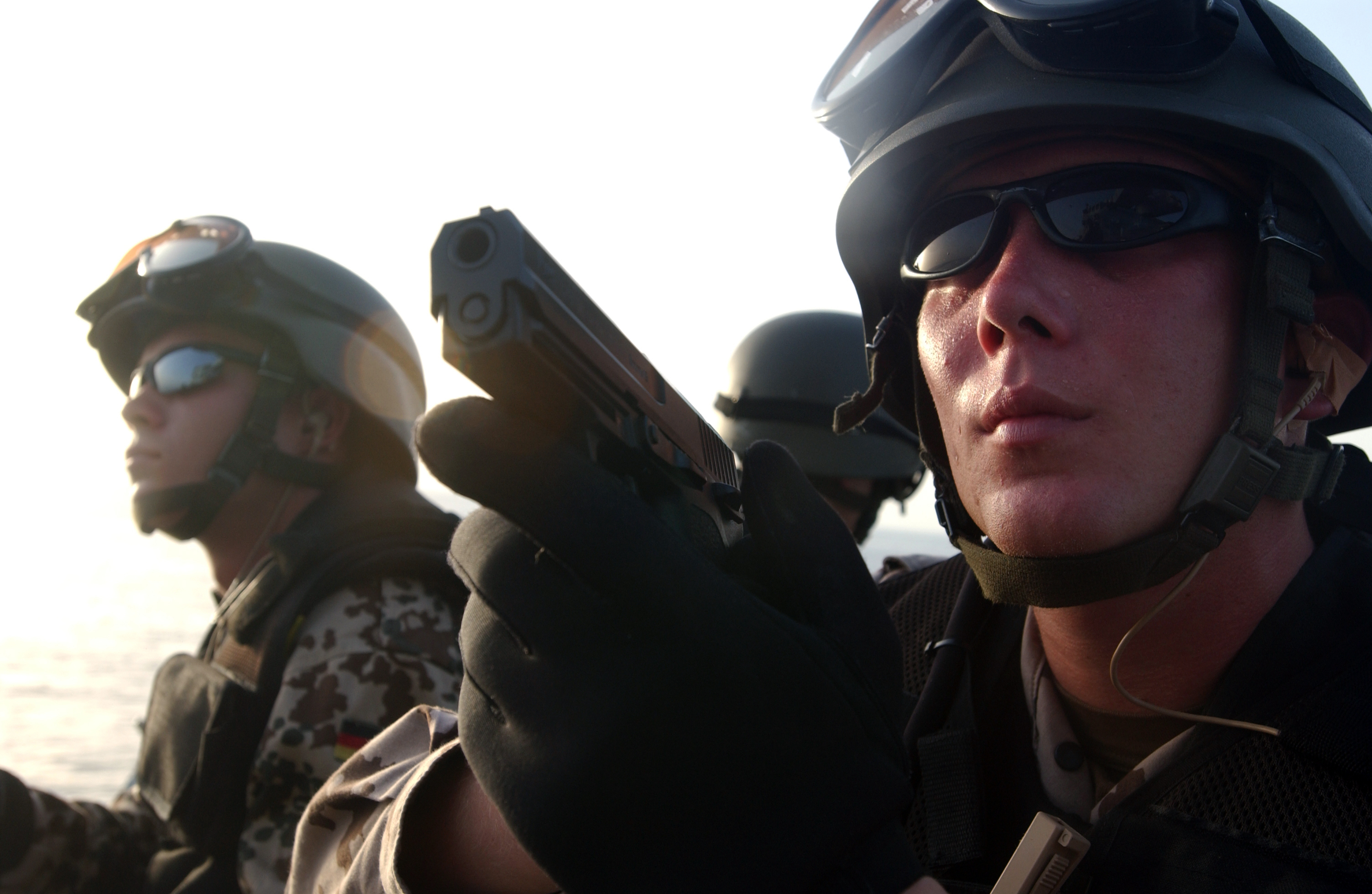 Boarding Team members assigned to the German Frigate FGS Augsburg (F213) provide security for the remainder of his team as they board a local cargo dhow by fast rope, during a search and seizure inspection of the vessel. The multinational Combined Task Force One Five Zero (CTF-150) was established to monitor, inspect, board, and stop suspect shipping to pursue the war on terrorism and includes operations currently taking place in the North Arabia Sea to support Operation Iraqi Freedom. Countries contributing to CTF-150 currently include Australia, Canada, France, Germany, Italy, Pakistan, New Zealand, Spain, United Kingdom and the United States.